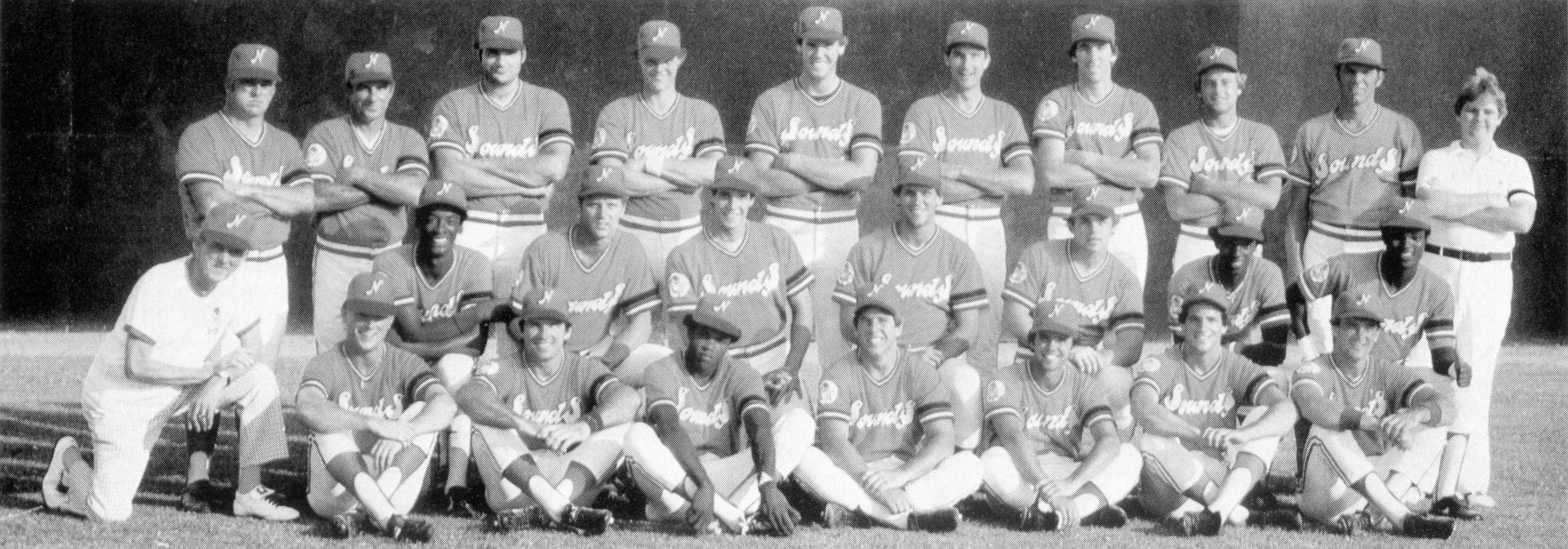 The 1980 Nashville Sounds Minor League Baseball team of the Southern League. Front row, left to right: Equipment Manager "Rags" Drennon, Mark Johnston, Pat Callahan, Rafael Santana, Brad Gulden, Danny Schmitz, Jamie Werly, Kenny Baker; Middle row, left to right: Willie McGee, Dan Ledduke, Paul Boris, Tom Filer, Buck Showalter, Ted Wilborn, Nate Chapman; Back row, left to right: Manager Stump Merrill, Hitting Coach Ed Napoleon, Steve Balboni, Pat Tabler, Brian Ryder, Andy McGaffigan, Steve Taylor, Don Cooper, Pitching Coach Pat Dobson, Trainer Steve Donohue